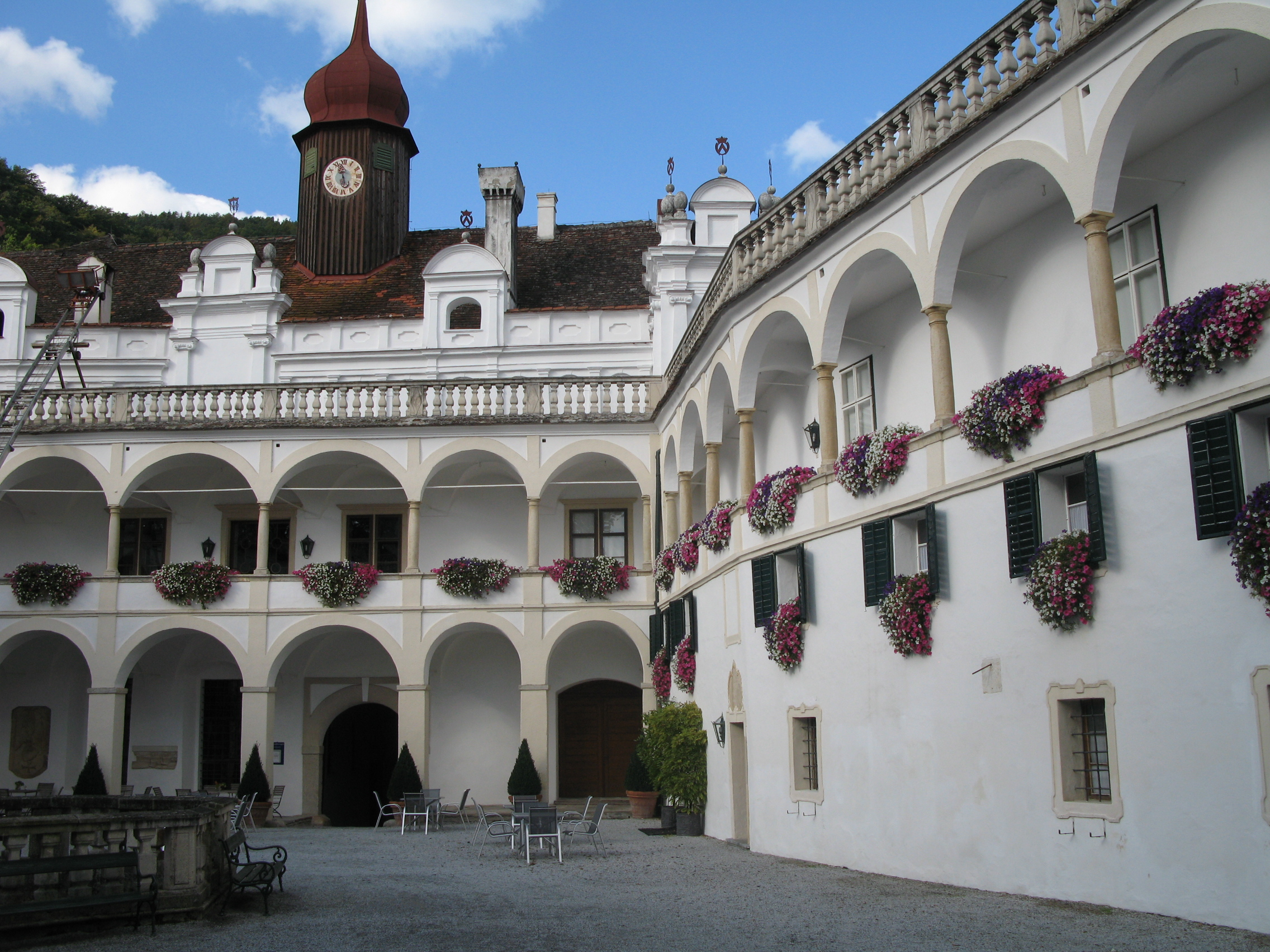 The inner courtyard of the castle Herbestein in Austria